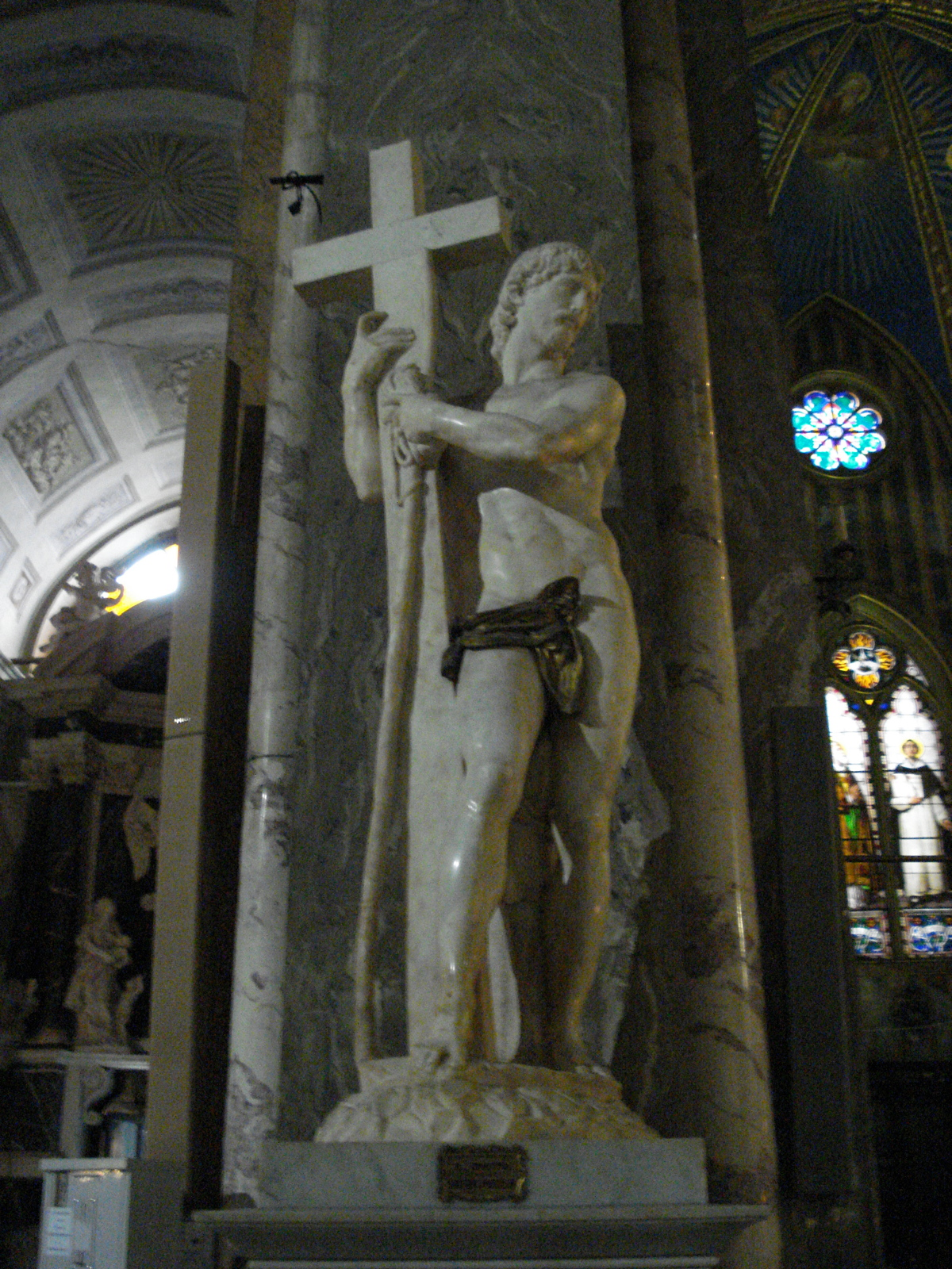 Michelangelo's Christ the Redeemer in the Basilica di Santa Maria sopra Minerva, Rome.